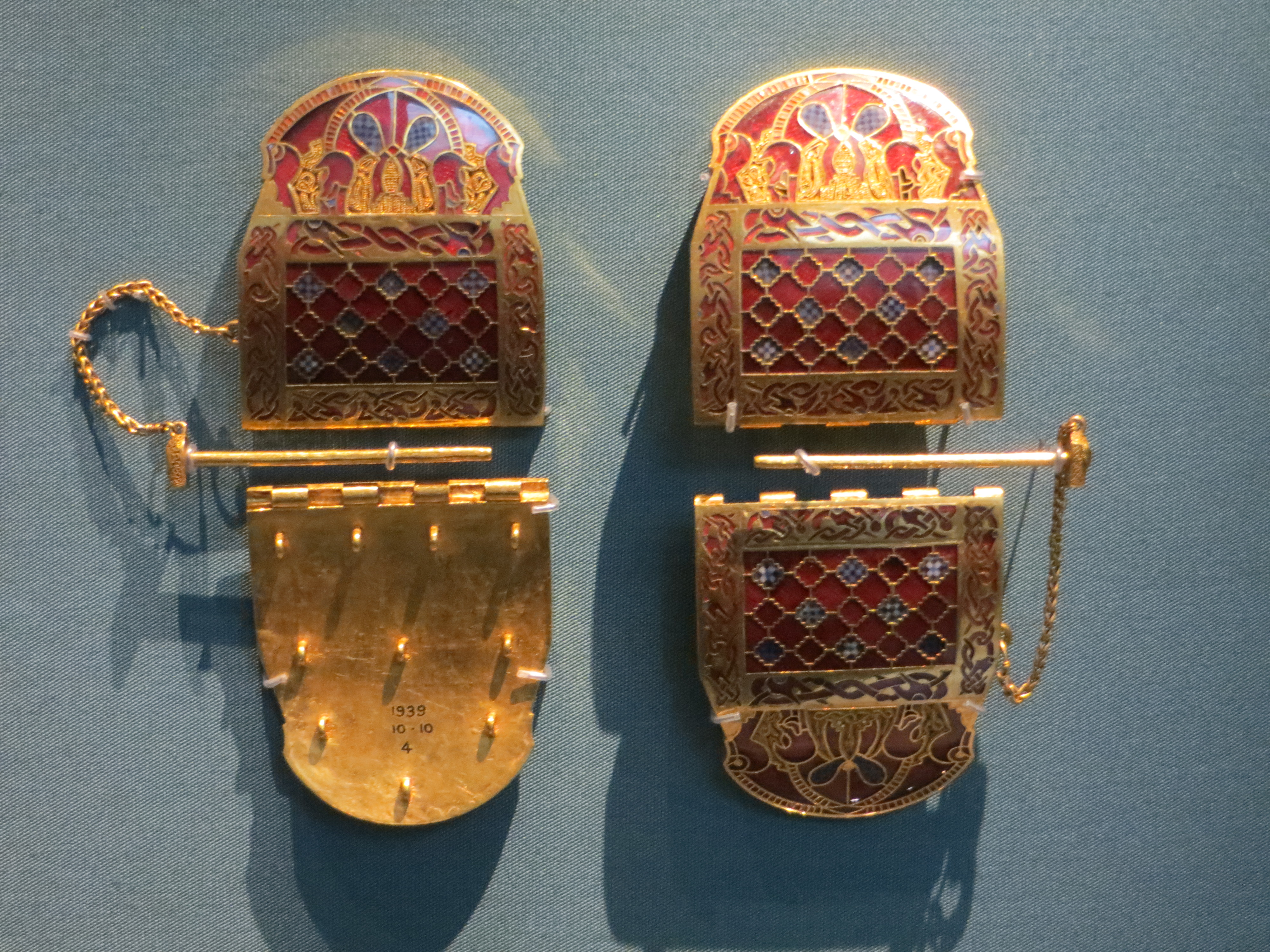 Items from the Sutton Hoo ship burial in the British Museum